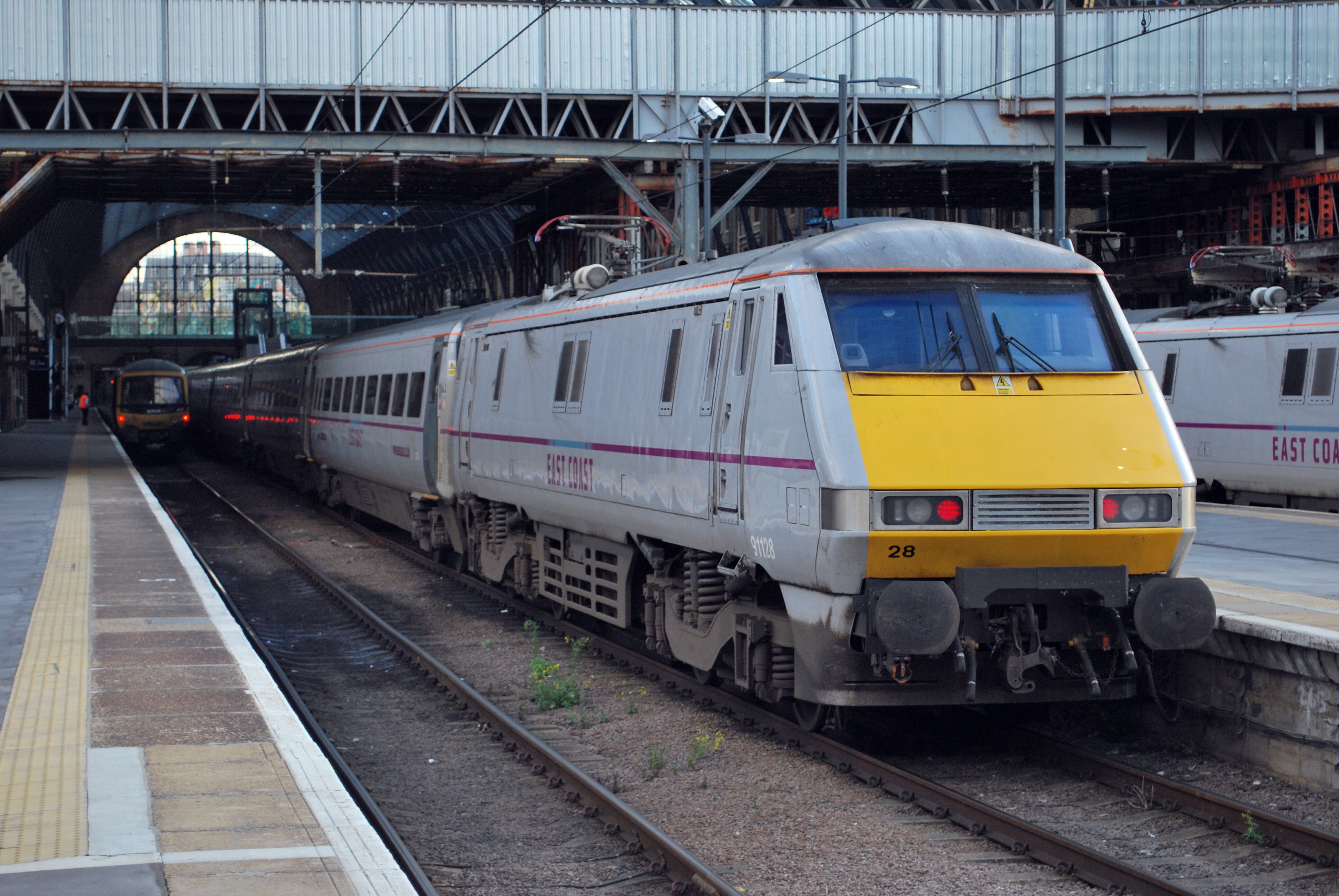 BR/GEC Class 91 6,090 hp Bo-Bo No.91 128 (ex-"Peterborough Cathedral") of East Coast in their livery at Kings Cross, 09/12.